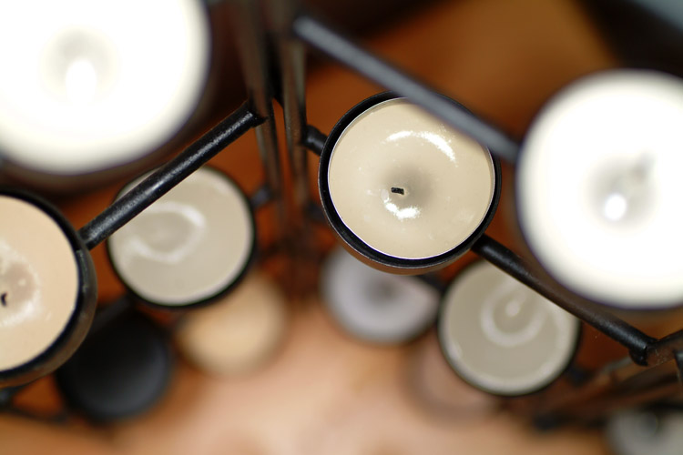 Tealights in a purpose-built holder. Photo by Steven N. Severinghaus, uploaded by same from here.